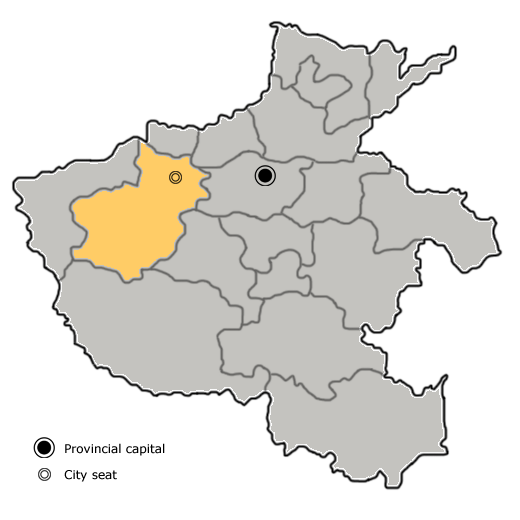 The prefecture-level city of Luoyang is highlighted on this map of Henan province, People's Republic of China.